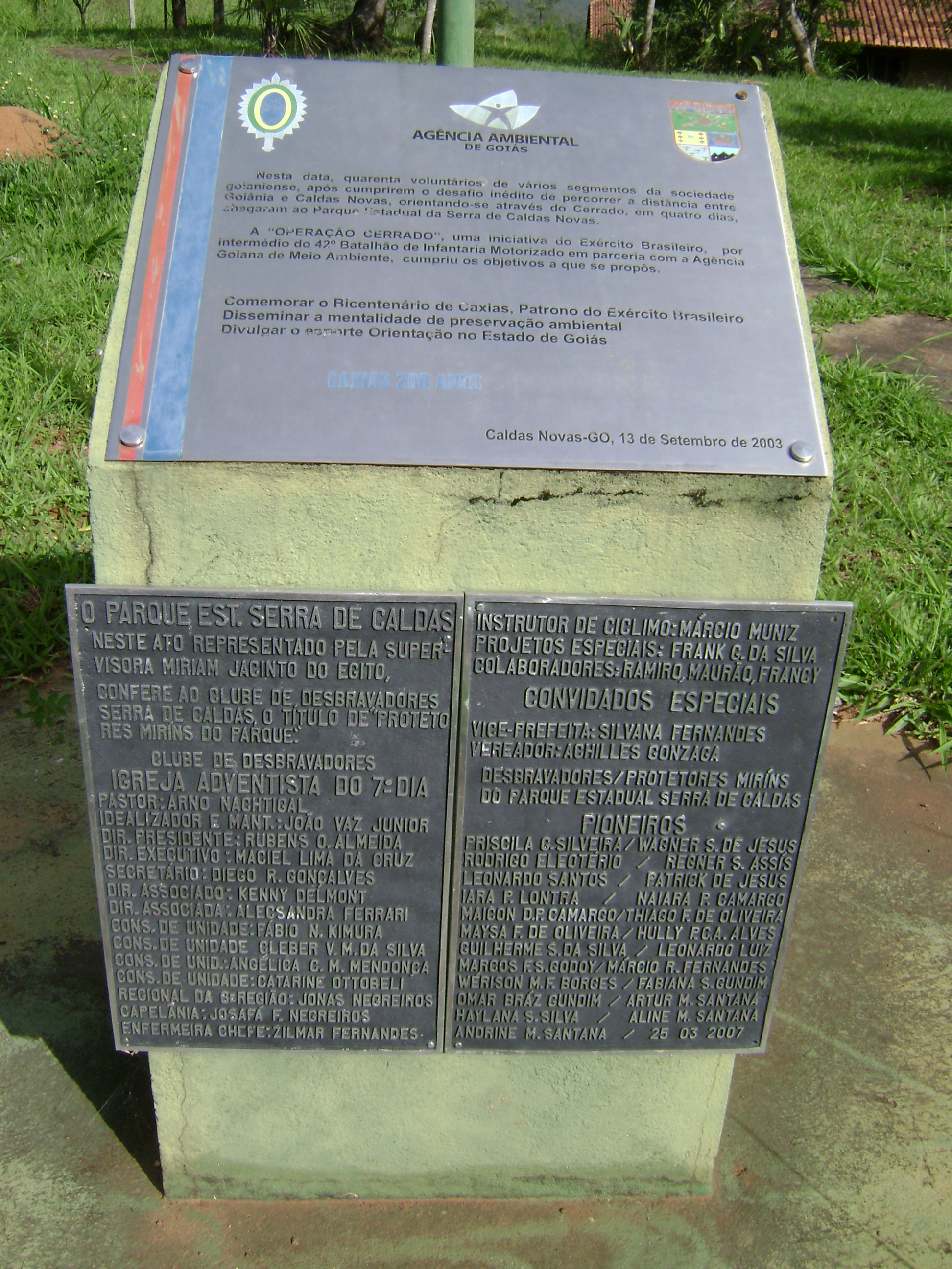 Signs in Serra de Caldas State Park, in Caldas Novas, Goiás, Brazil.